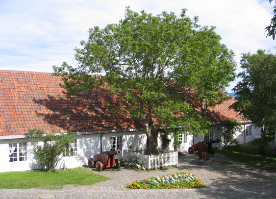 Munkholmen in Trondheim, the commander's house